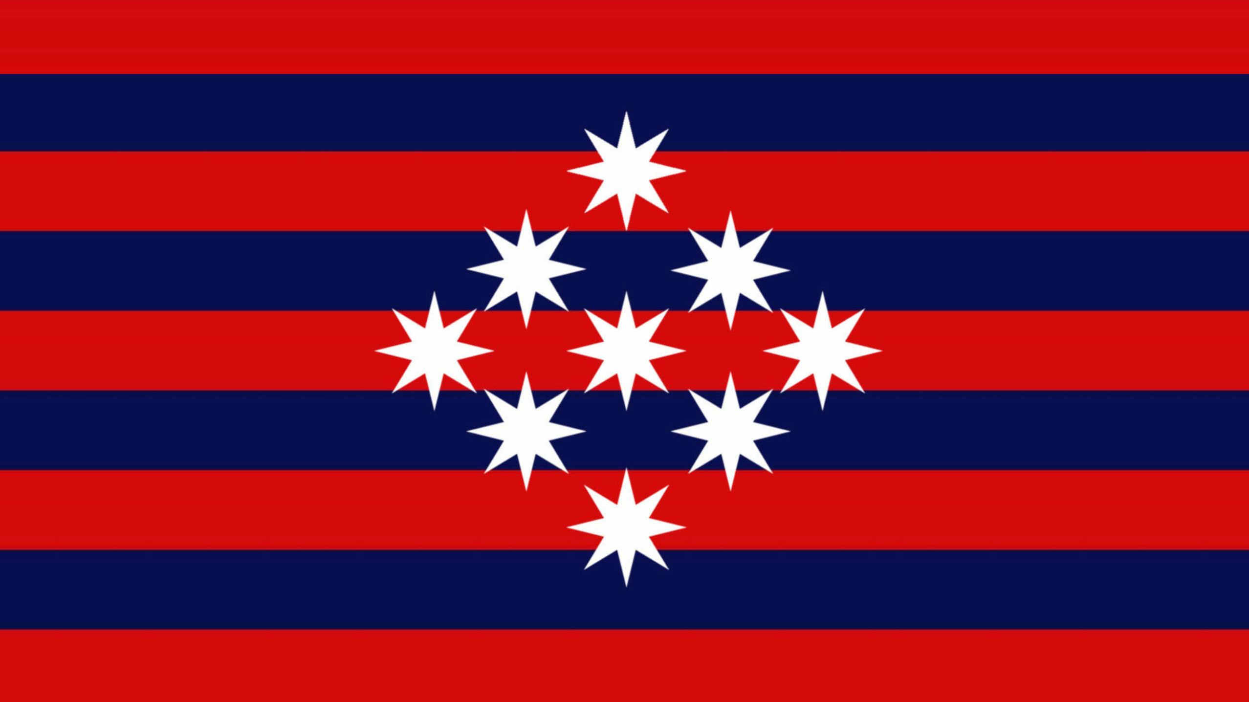 Minahasa Flag Permesta, Seperation flag.